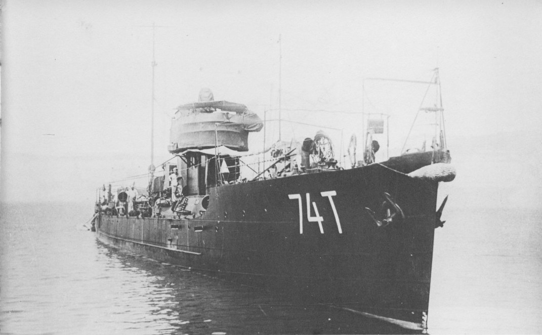 Austro-Hungarian torpedo boat 74T at anchor